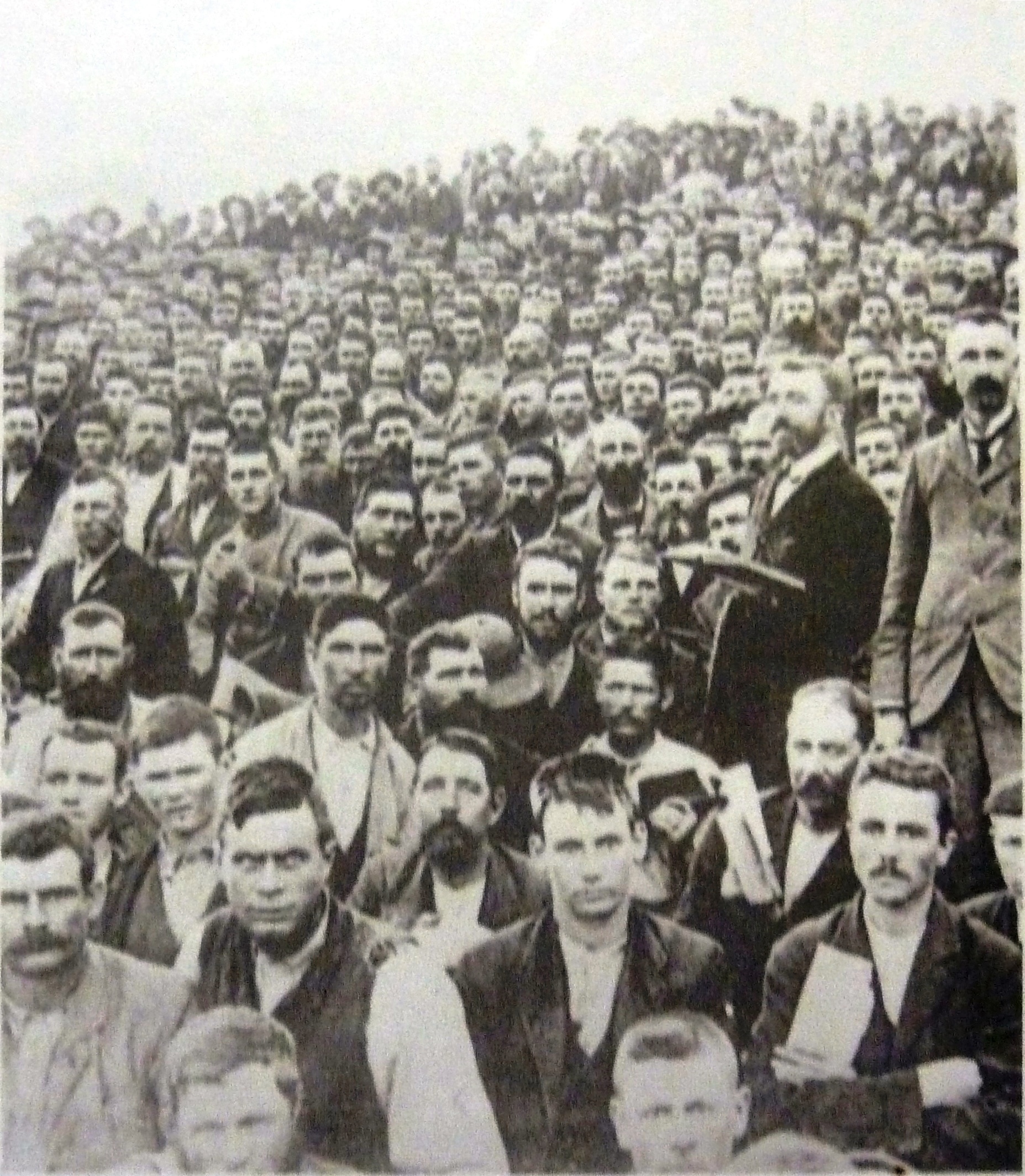 Boer prisoners of war at the Sunday service in Diyatalawa camp on Ceylon, who were mostly taken captive at the Brandwater basin, Orange Free State, under general Prinsloo. Prinsloo's surrender was a major setback for the Boer cause during the war. Reverends Petrus Postma from Pretoria and Paul Hendrik Roux from Senekal stand side by side at right. All were guarded by the King's Royal Rifles under Colonel Gore-Brown. The photo is on display at Fort Schanskop, Pretoria.